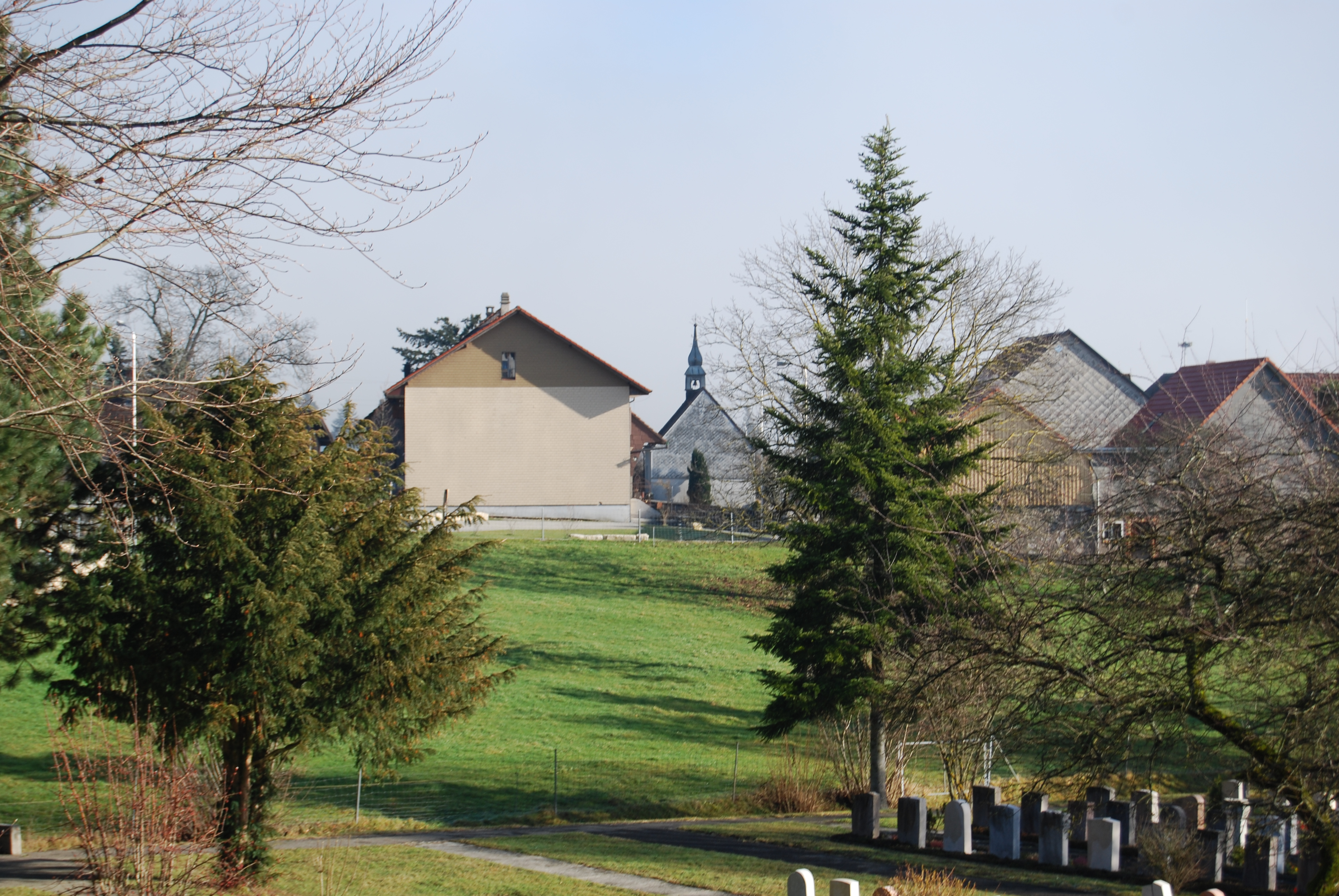 Aedermannsdorf, canton of Solothurn, SwitzerlandEsperanto: Aedermannsdorf, Kantono Soloturno, Svislando